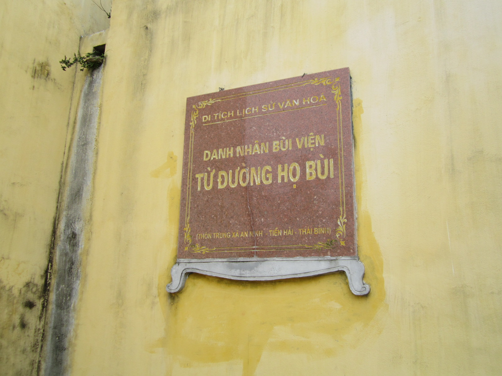 Trinh-pho Bui clan memorial hall in Thái-bình, VN